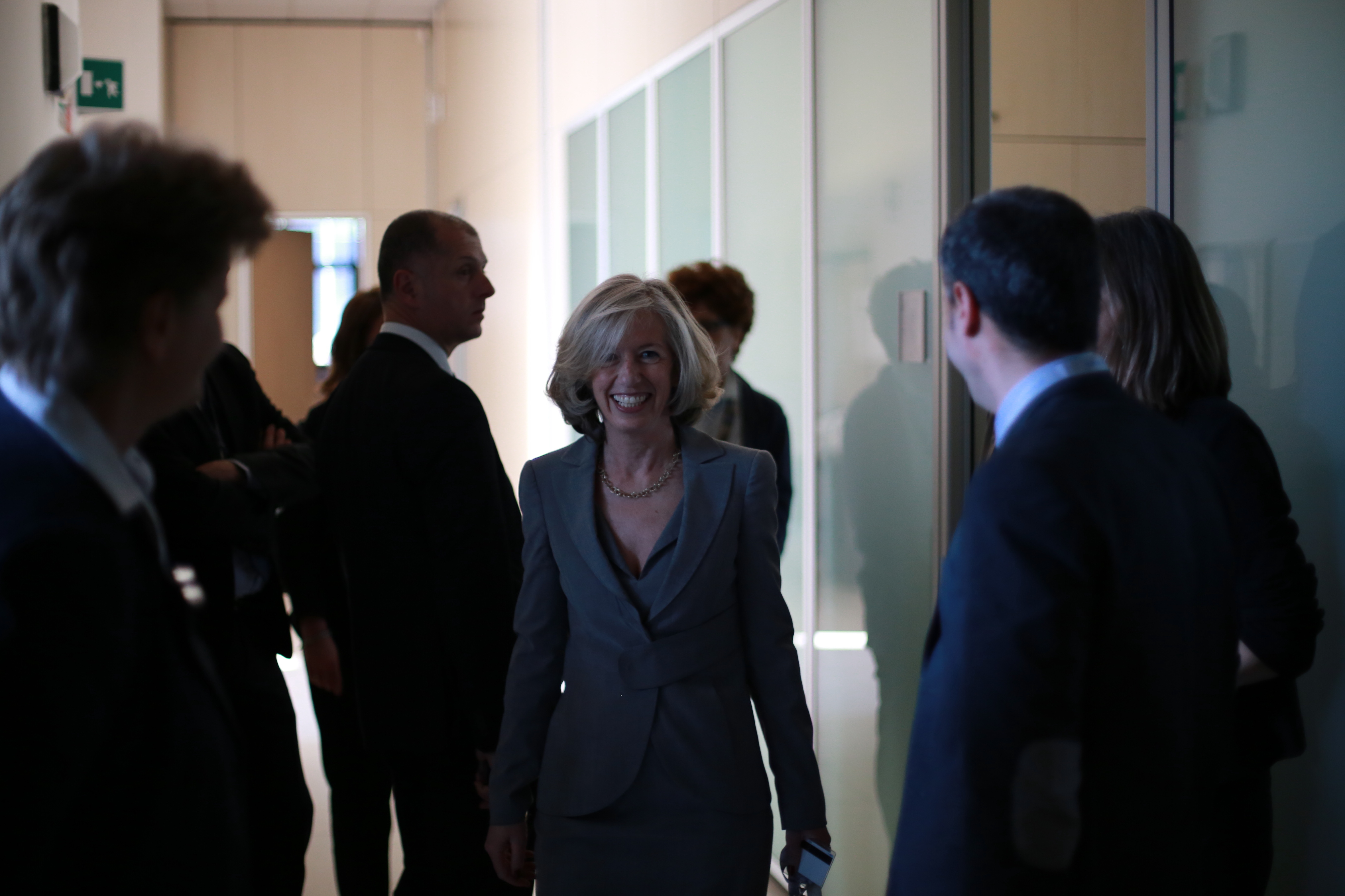 Minister of Education, Universities and Research Stefania Cineca visiting Cineca